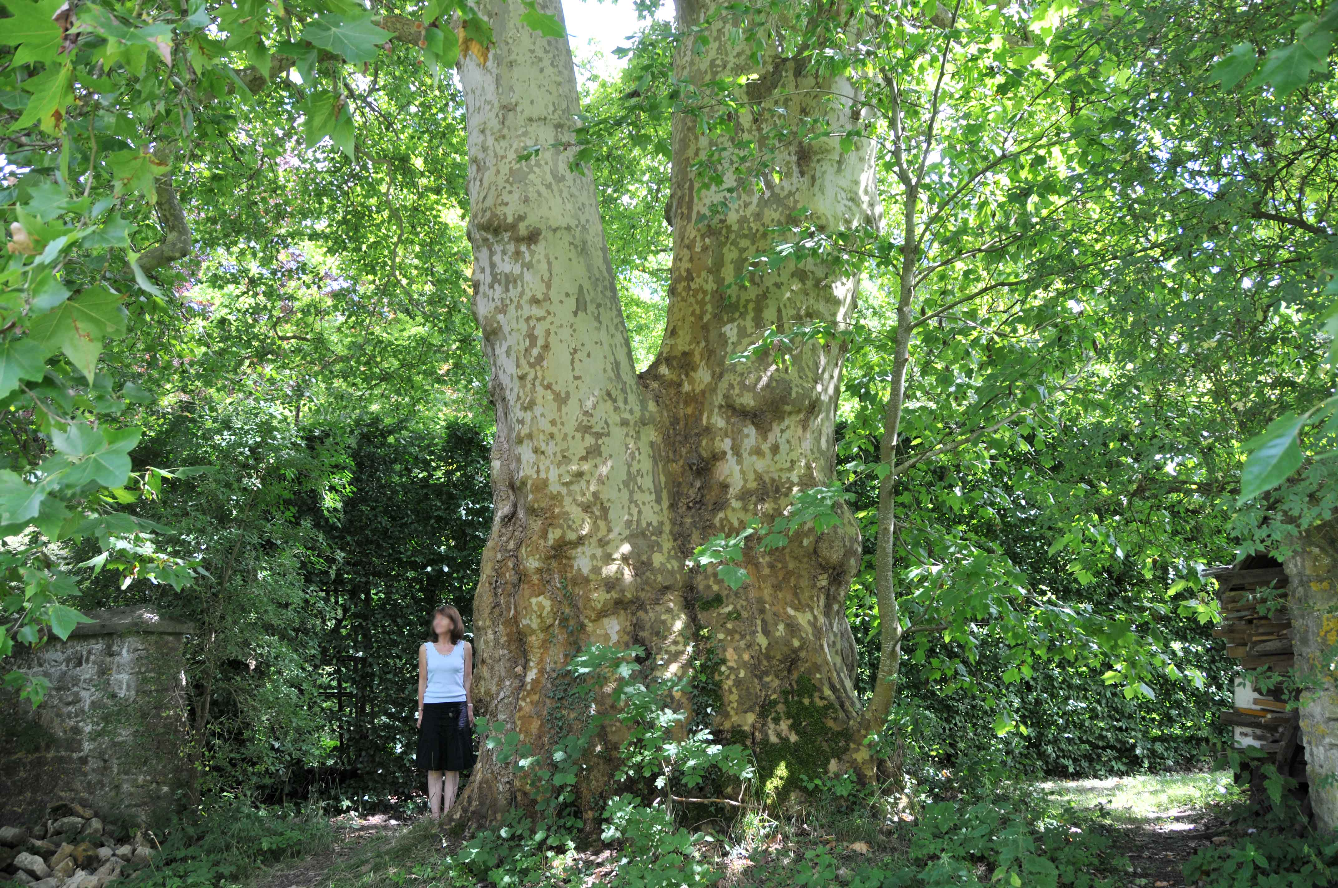 Luxembourg, Ansembourg: Remarkable plane tree (Platanus x hispanica), located close to the wall (to the right) surrounding the park of Ansembourg Castle. The plane tree is listed as 'monument national'.